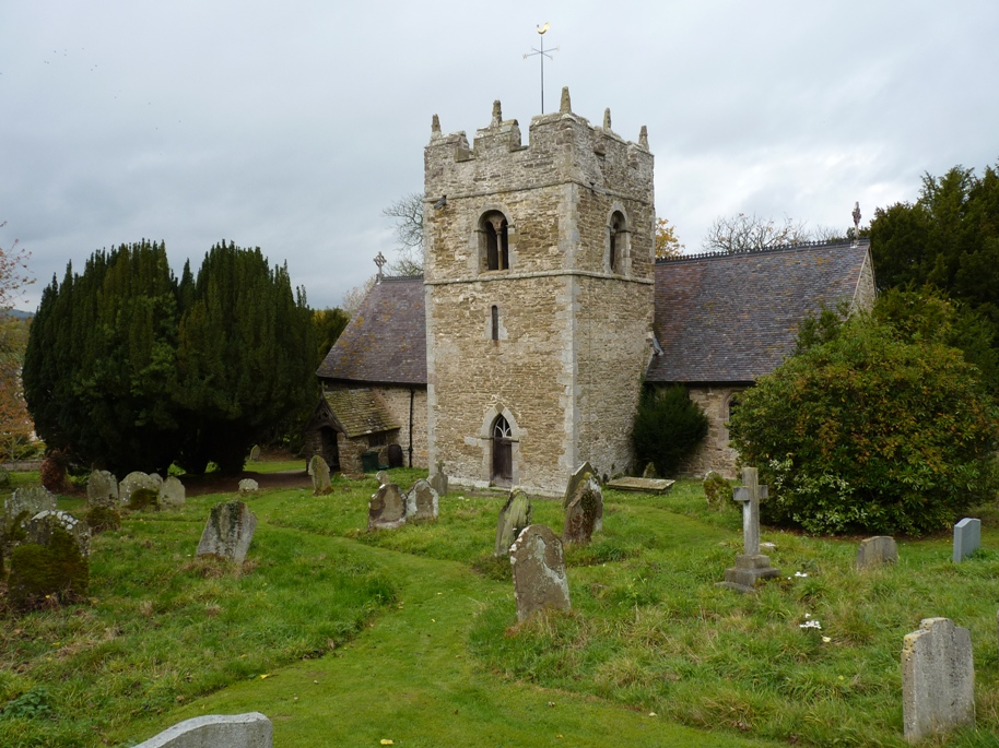 Photograph of St Edith's Church, Eaton-under-Heywood